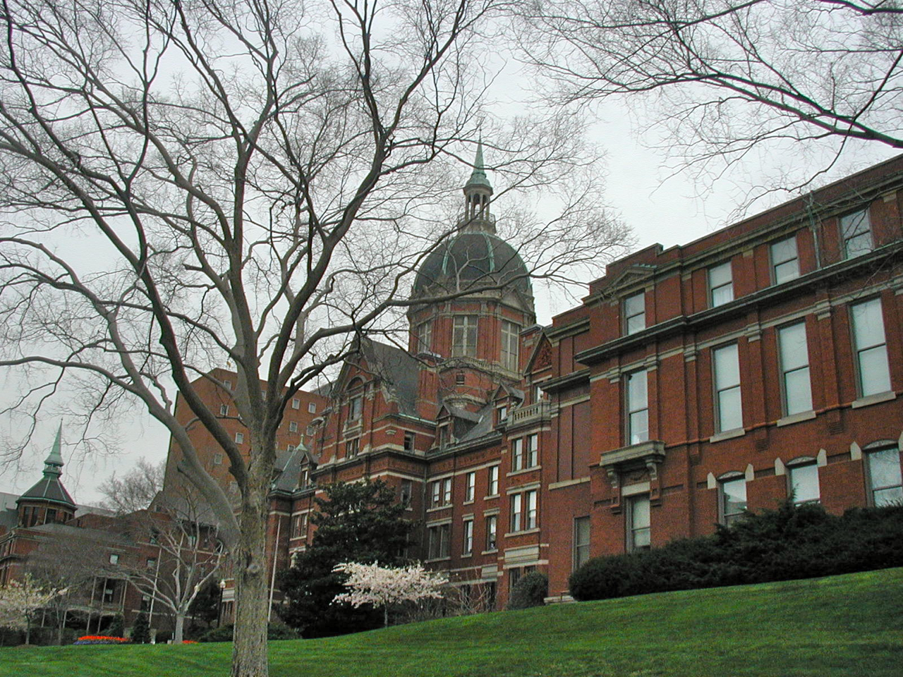 The Billings Building, of Johns Hopkins Hospital in Baltimore, Maryland. Designed by John Rudolph Niernsee and completed by Edward Clarke Cabot in 1889.